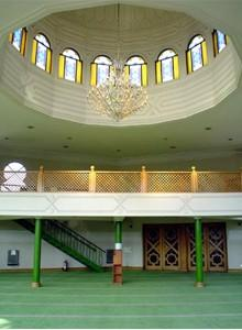 Mosque in Santiago de Chile